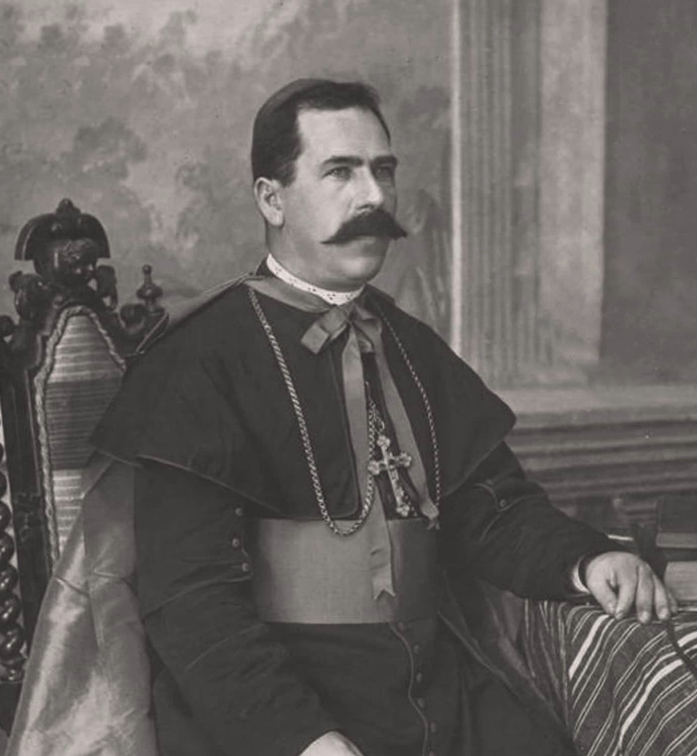 Lazer Mjeda